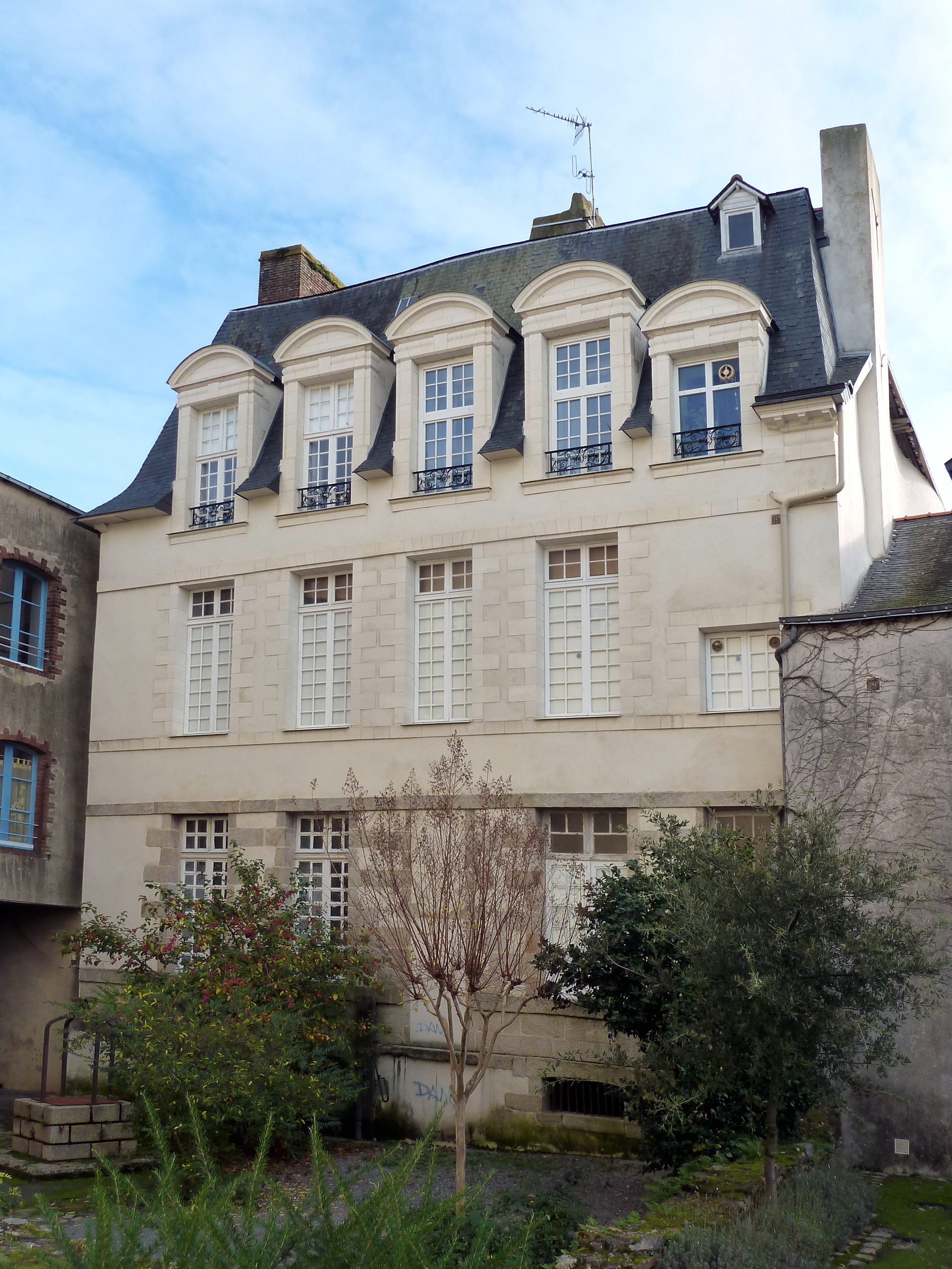 Backside of Hôtel de Carmoy, Redon, Ille-et-Vilaine, Brittany, France.